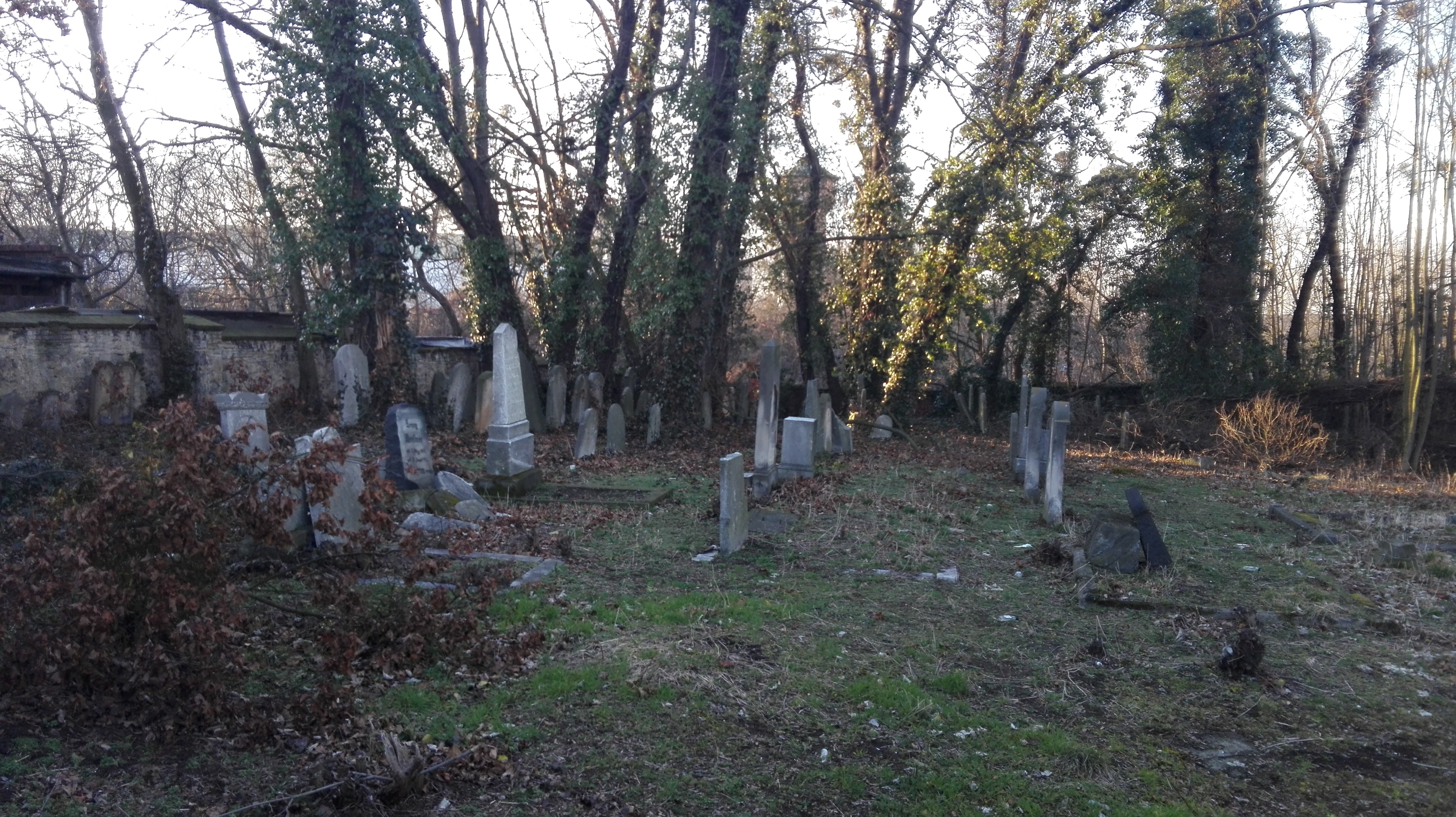 Jewish cemetery in Krapkowice, Poland. 12.1989.